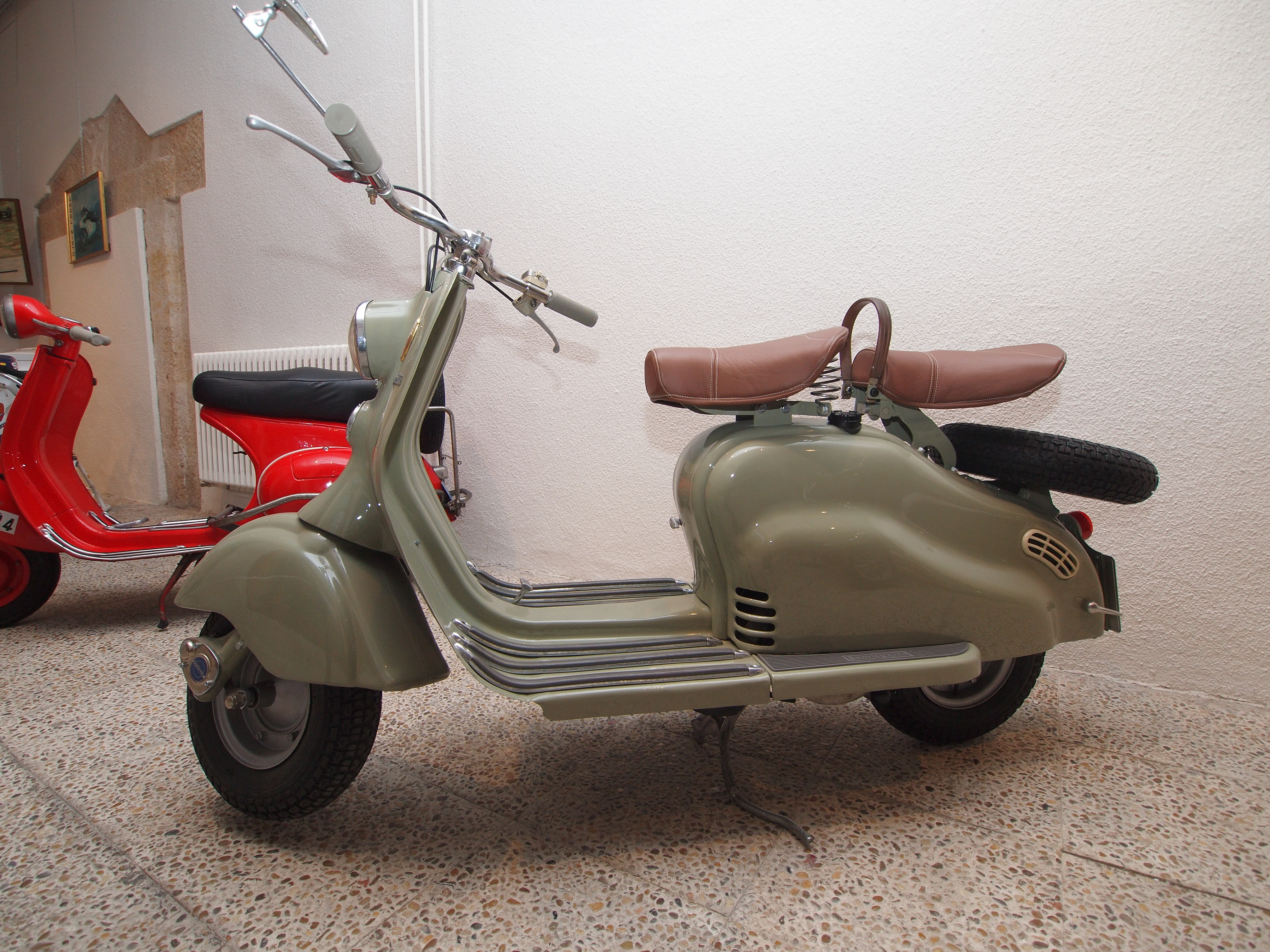 Lambretta LD 125cc (1956) at exhibition in the II Show "Toda una Vida en Moto" of the Asociacion Motociclista Zamorana (Zamora, Spain, February 2012)